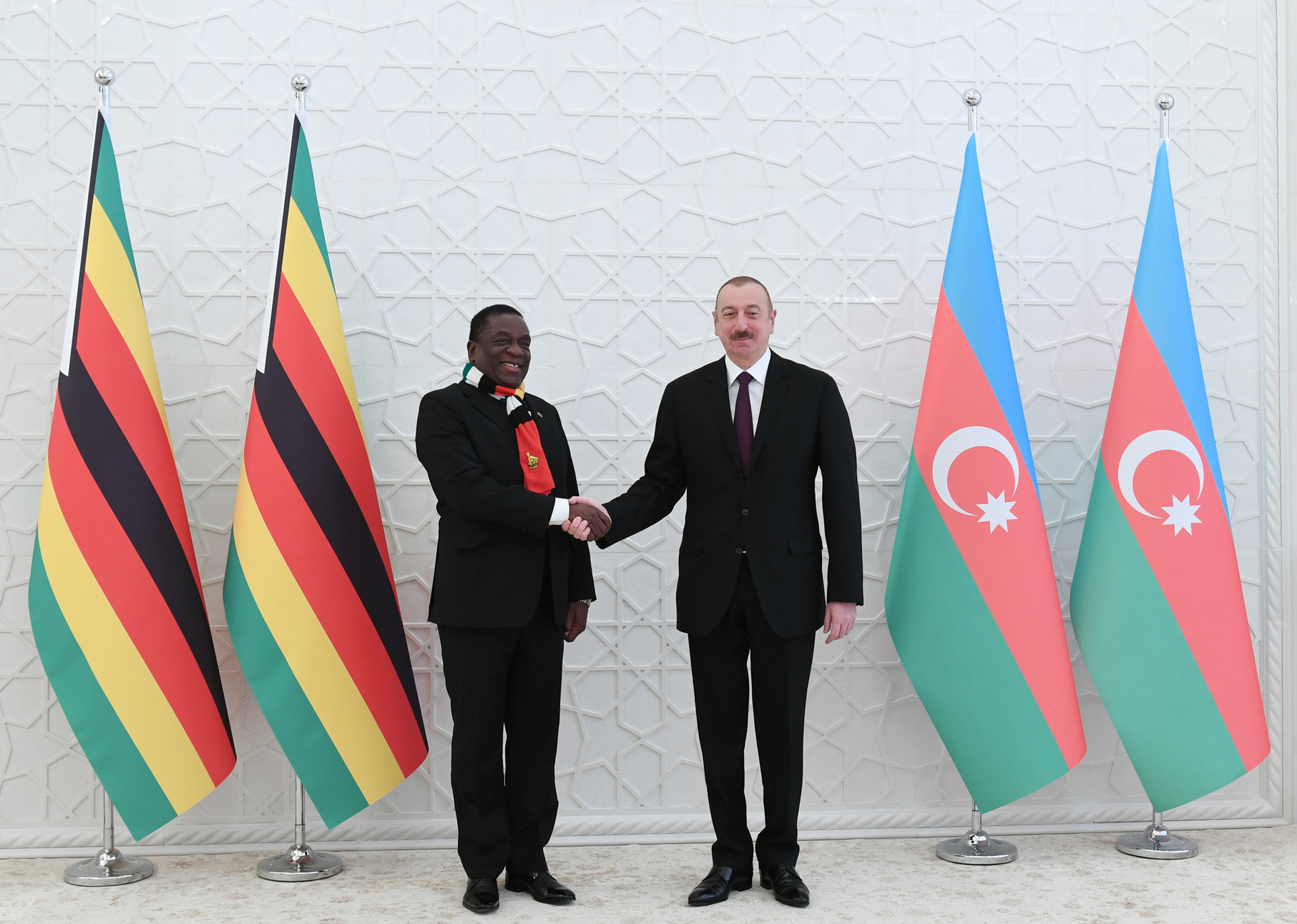 Ilham Aliyev met with Zimbabwe President Emmerson Mnangagwa